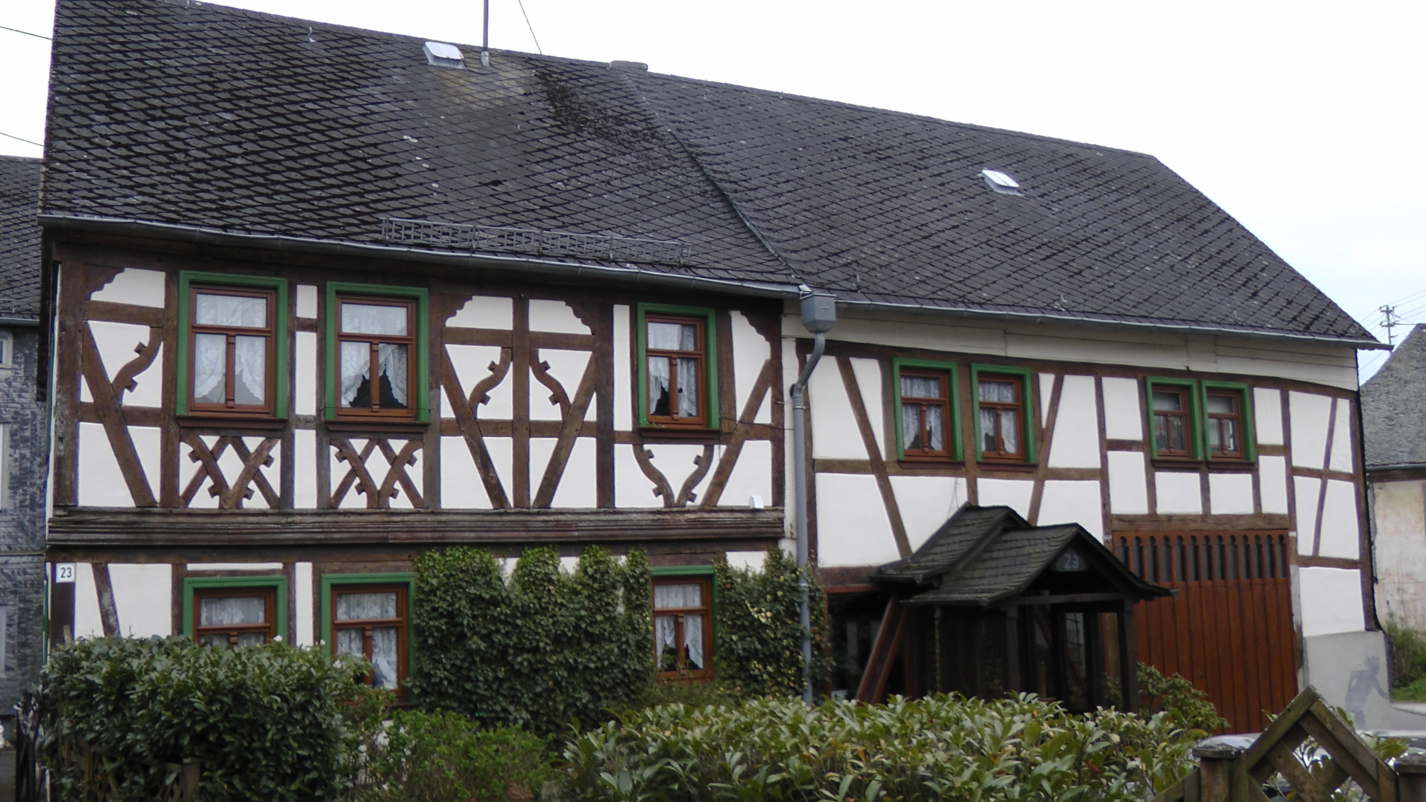 Hirschfeld Hunsrück, Quereinhaus in Fachwerkbauweise, Unterdorf 23